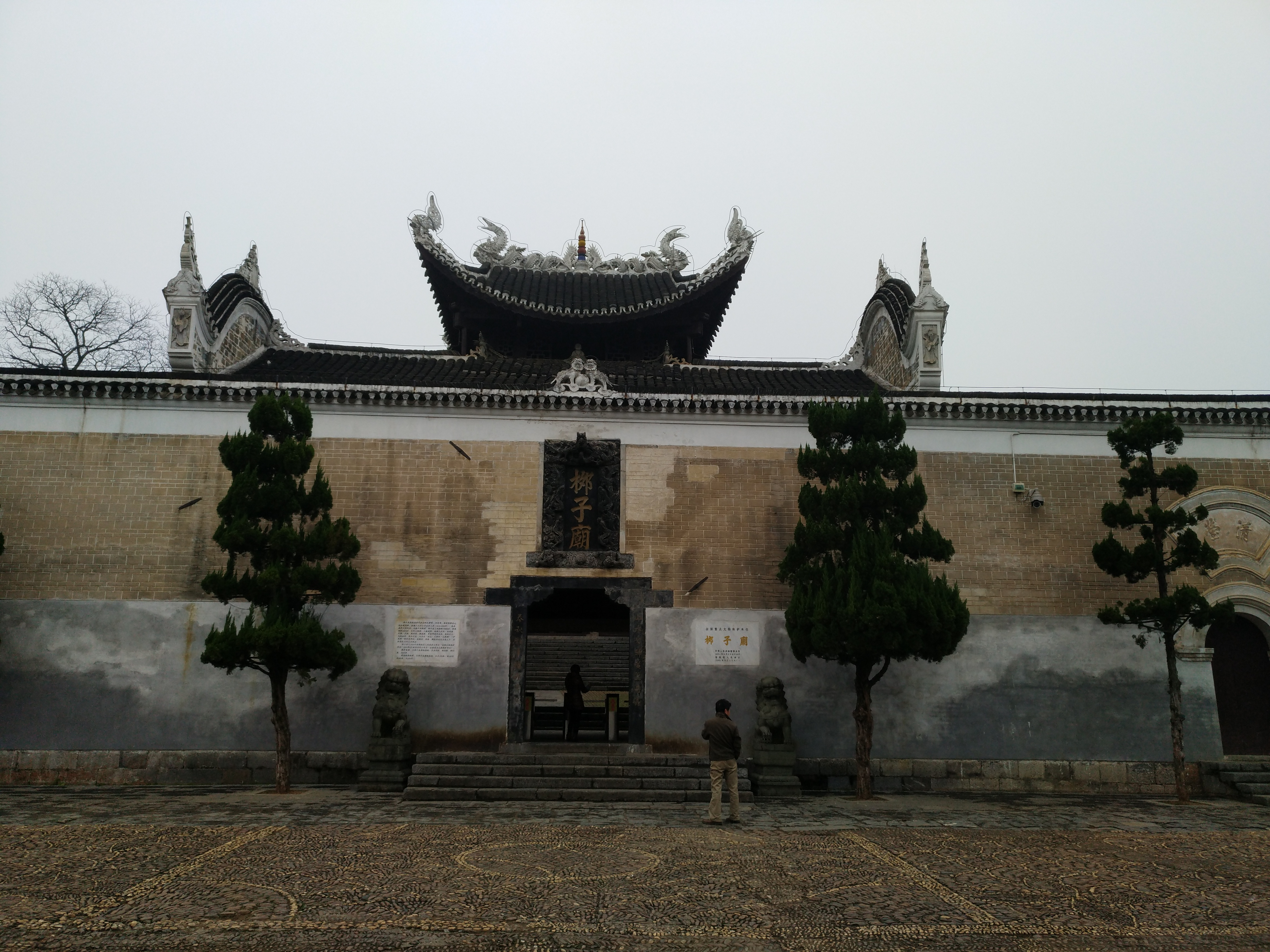 Gate of Liuzi Temple, in Lingling District of Yongzhou, Hunan, China. On both sides of the main entrance there are two Chinese guardian lions.